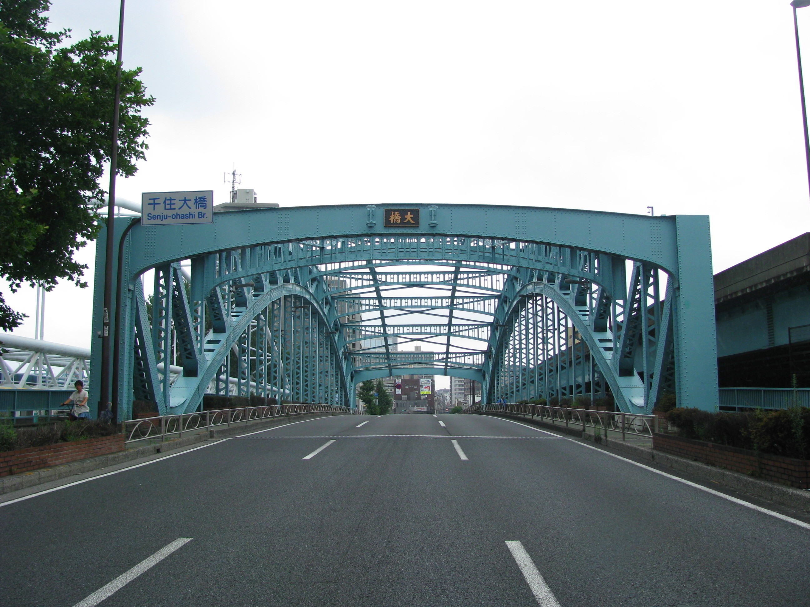 The Senju-ōhashi is over the Sumida-gawa, connect Arakawa and Adachi in Tokyo, Japan.